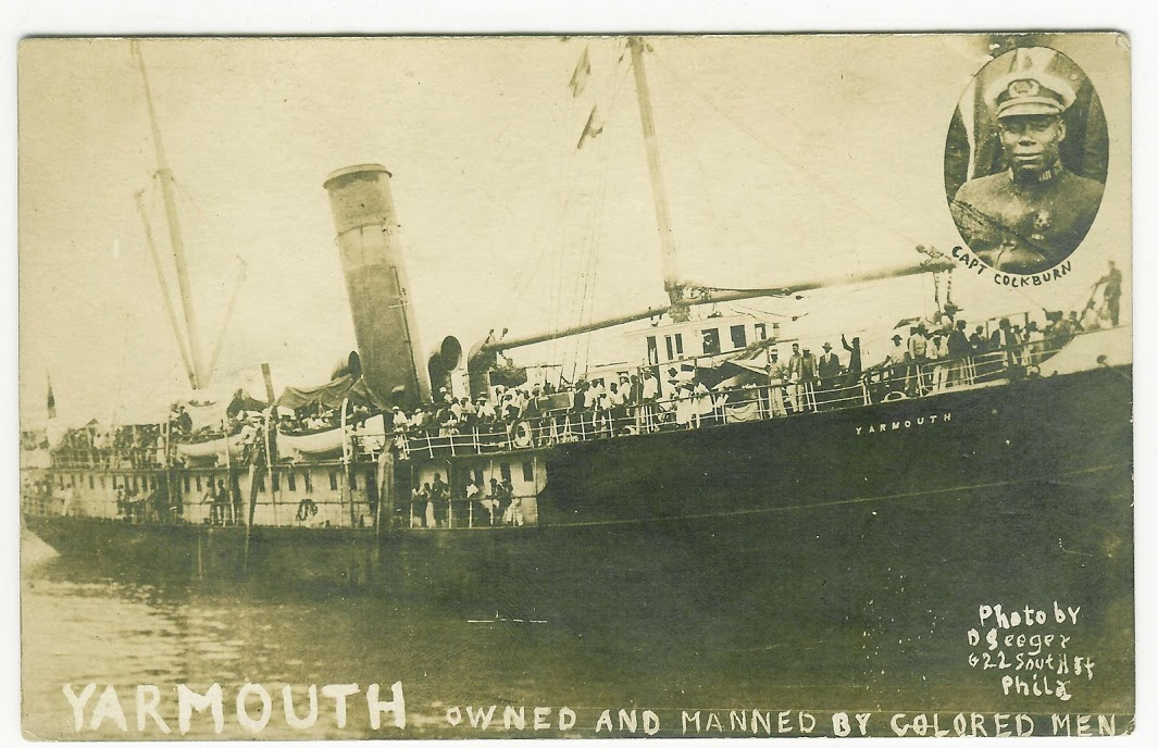 SS Yarmouth, c1920 Postcard showing Captain Joshua Cockburn who was captain of the Yarmouth from October 1919-June 1920